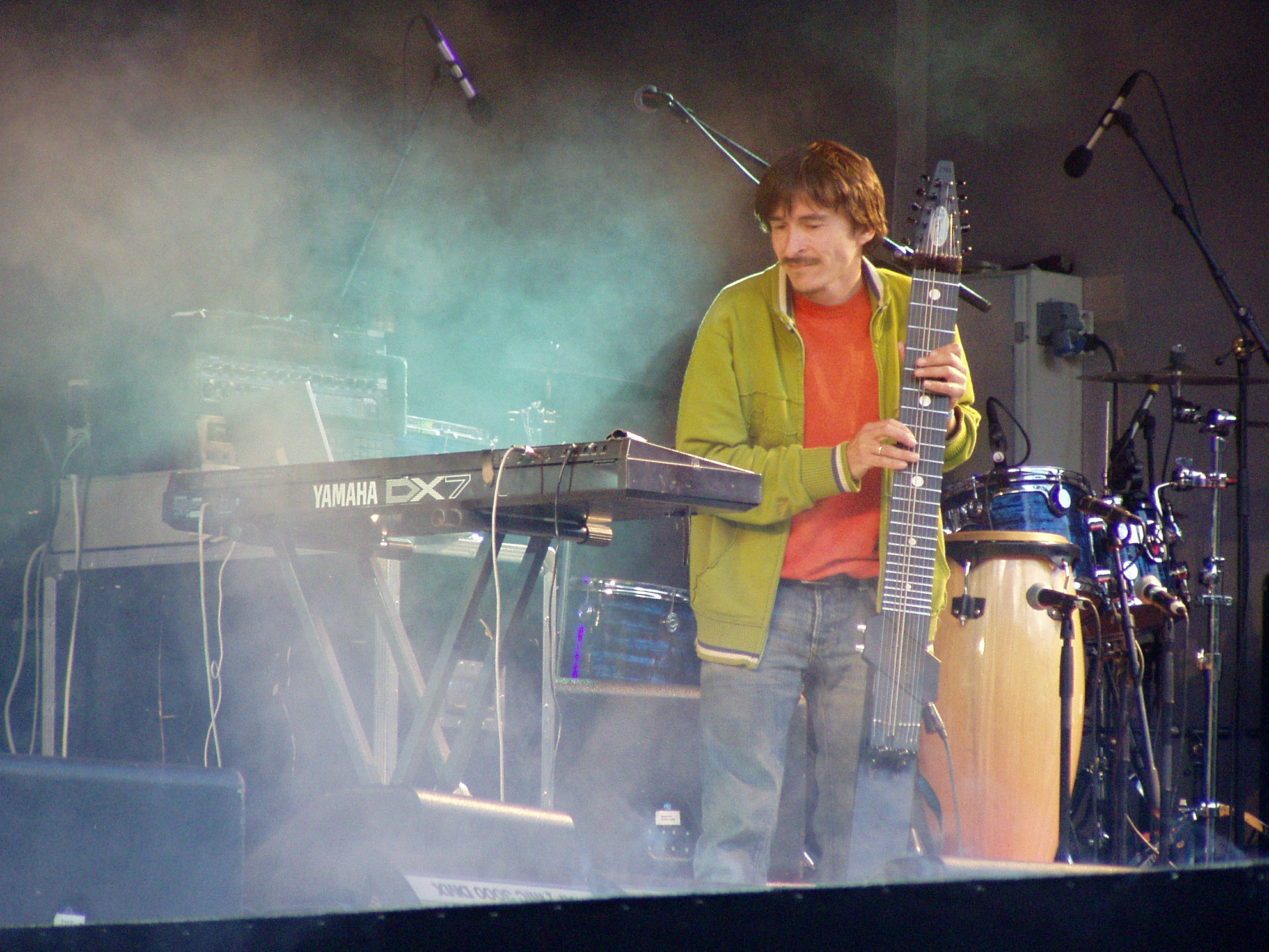 Nils Johansen from Vajas on Festival of Riddu Riđđu of natural cultures in Norway, 2007